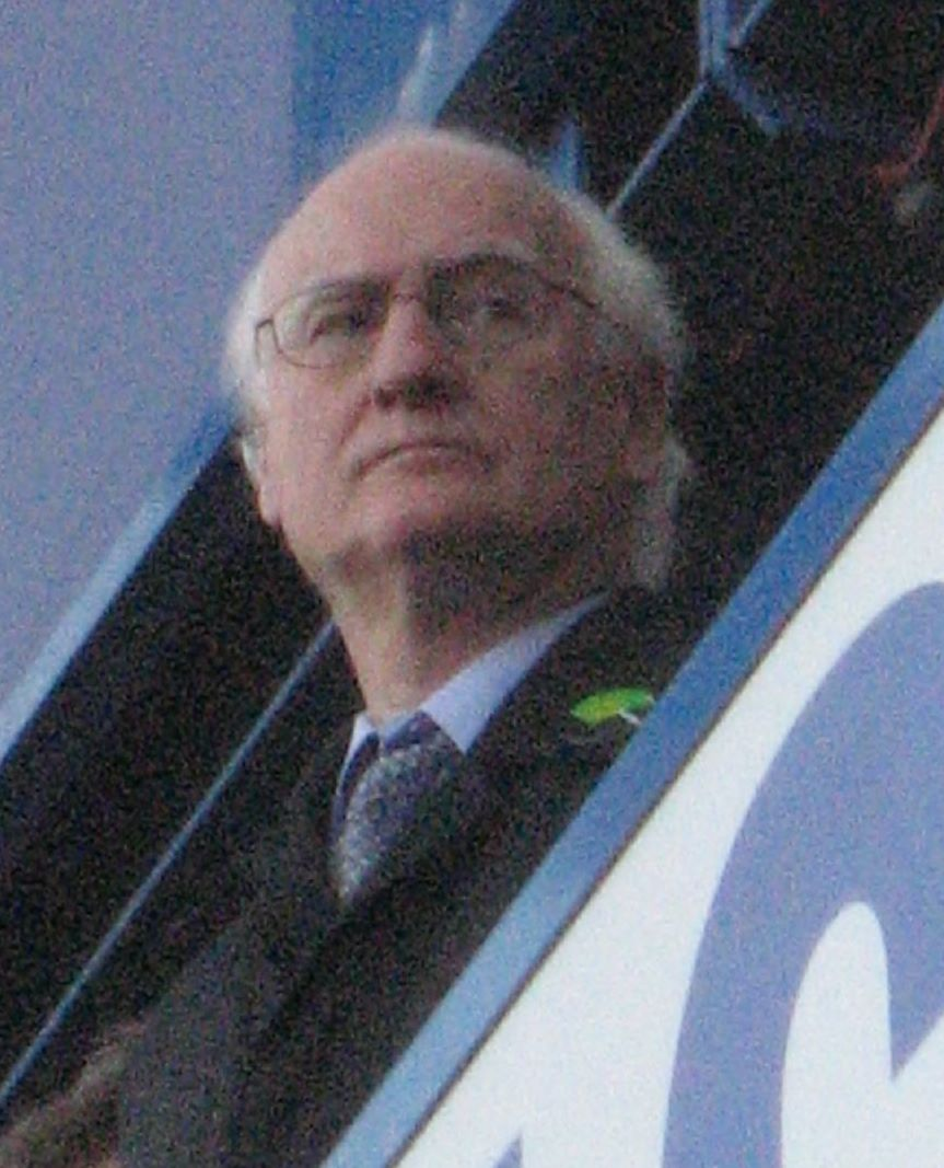 Chairman Bruce Buck of Chelsea F.C.